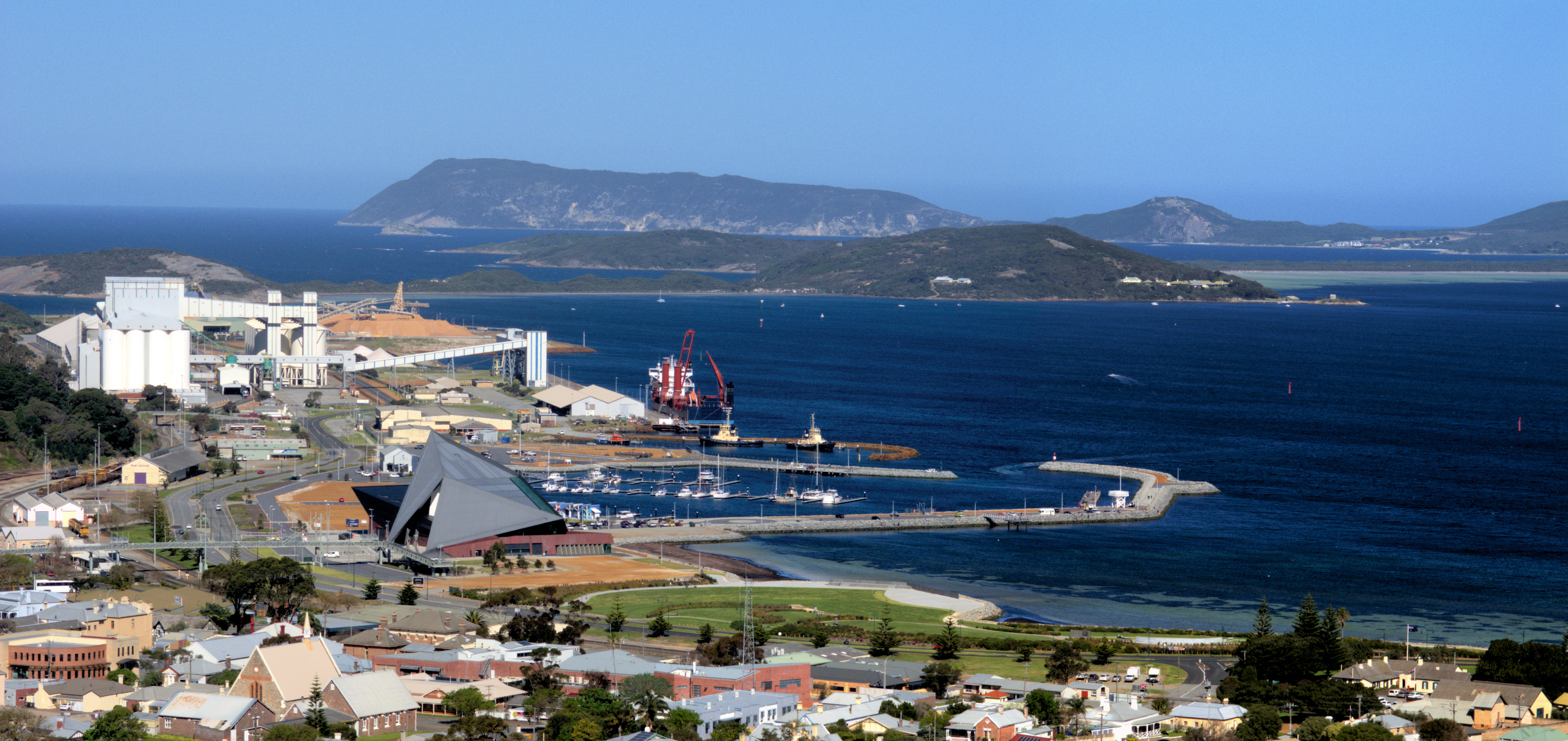 View of Port of Albany from Mount Melville